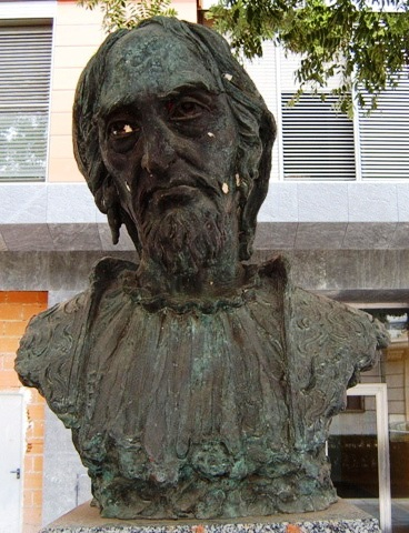 Bust in Guadalajara, Spain, of Moses de Leon, Spanish philosopher and Jewish rabbi of the XIII century, writer of Zohar, by Luis A. Sanguino.